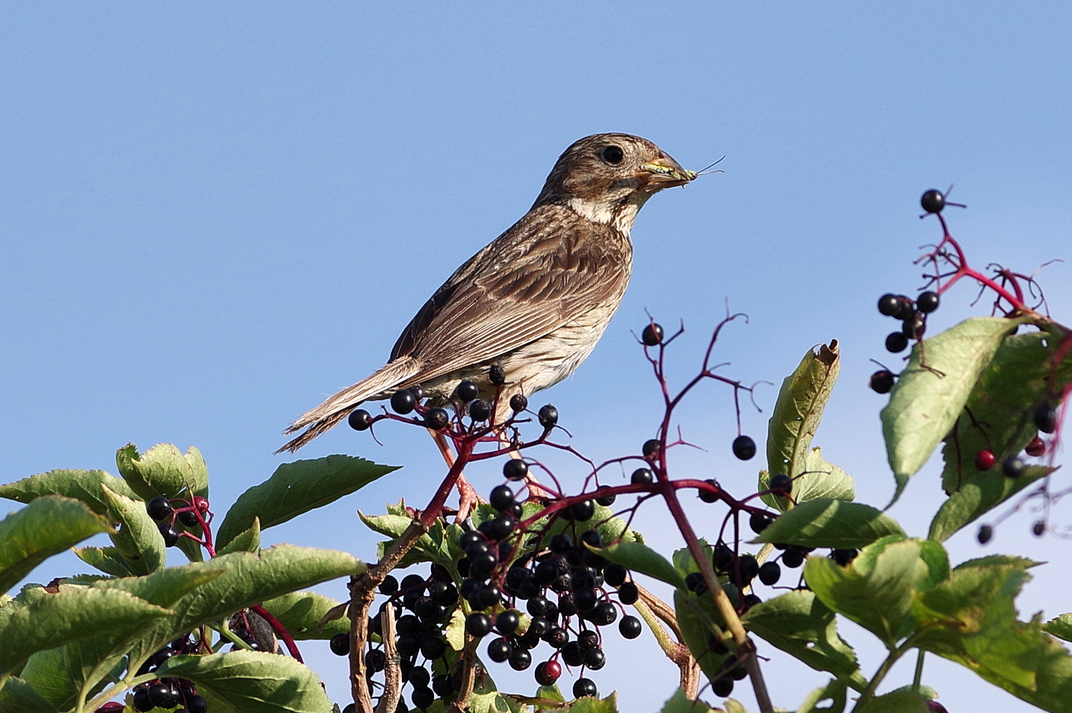 Corn bunting (Emberiza calandra), Lower Oder Valley National Park, Germany